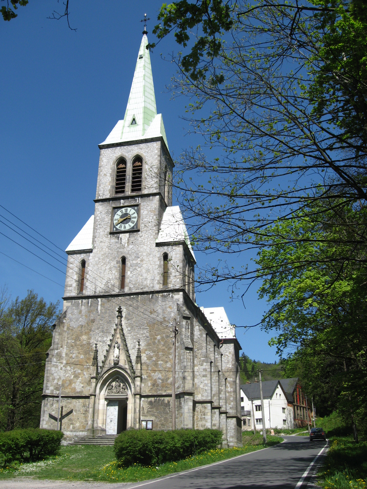 Church of the Immaculate Conception in Travná (part of Javorník town, Jeseník District, Czech Republic)